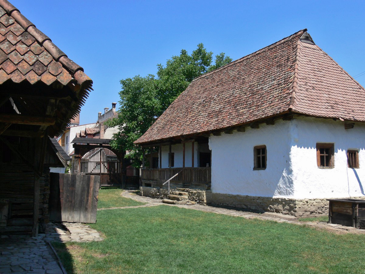 Rural house in the Molnár István Museum, Székelykeresztúr, Transsylvania (Romania)